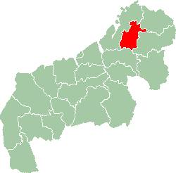 Location map of Antsohihy region in Mahajanga province.